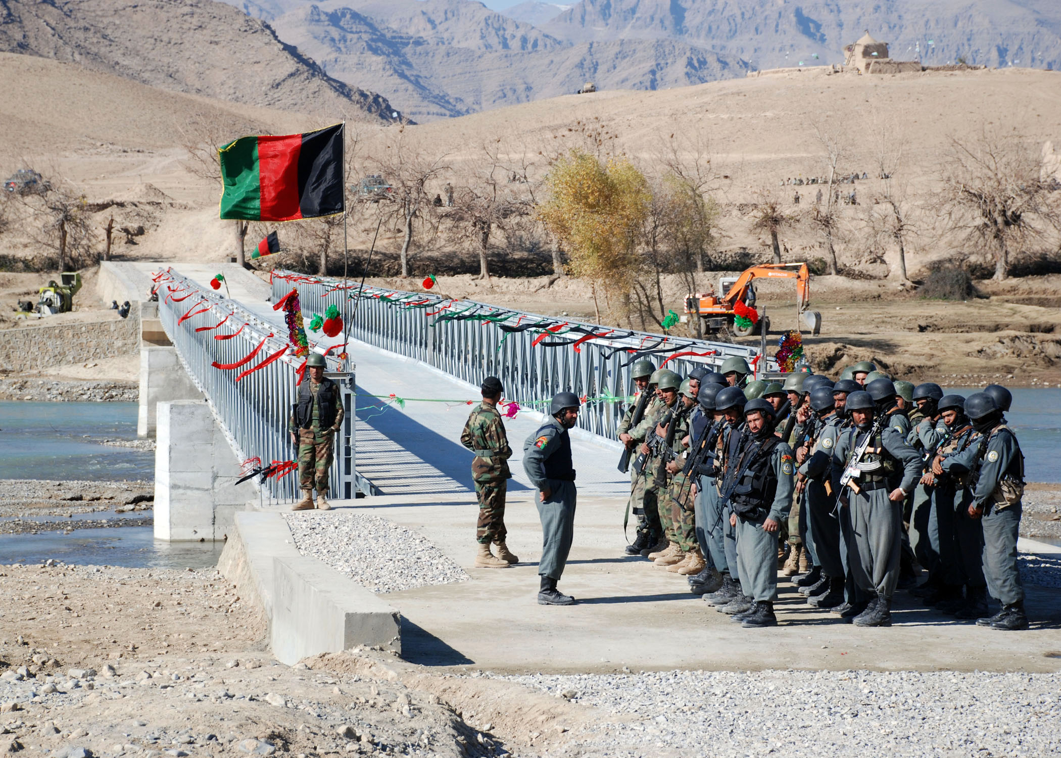 081230-N-6483G-001 URUZGON, Afghanistan (Dec. 30, 2008) Afghanistan and Coalition security forces stand by near the Chutu Bridge during a grand opening ceremony for the bridge. The improvements to the region's infrastructure will increase security and improve economic prosperity for the Helmand River region.